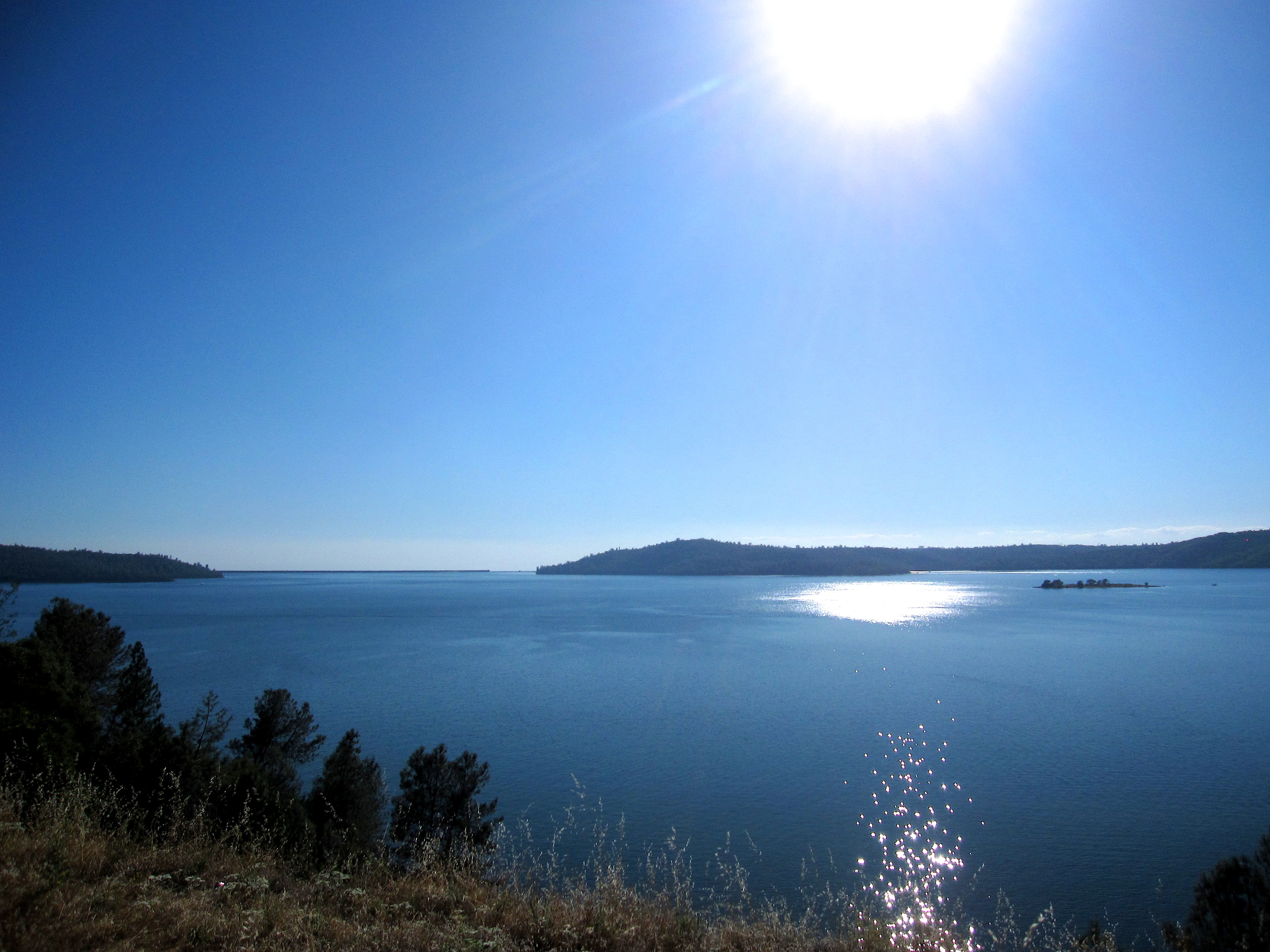 Lake Oroville — a reservoir impounded by Oroville Dam, on the Feather River. Located in the Sierra Nevada foothills, Butte County, California. The largest reservoir in California.